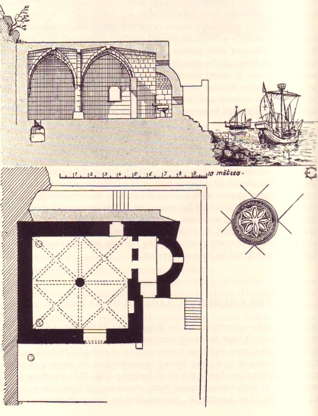 Apostolos Andreas Monastery, Cyprus